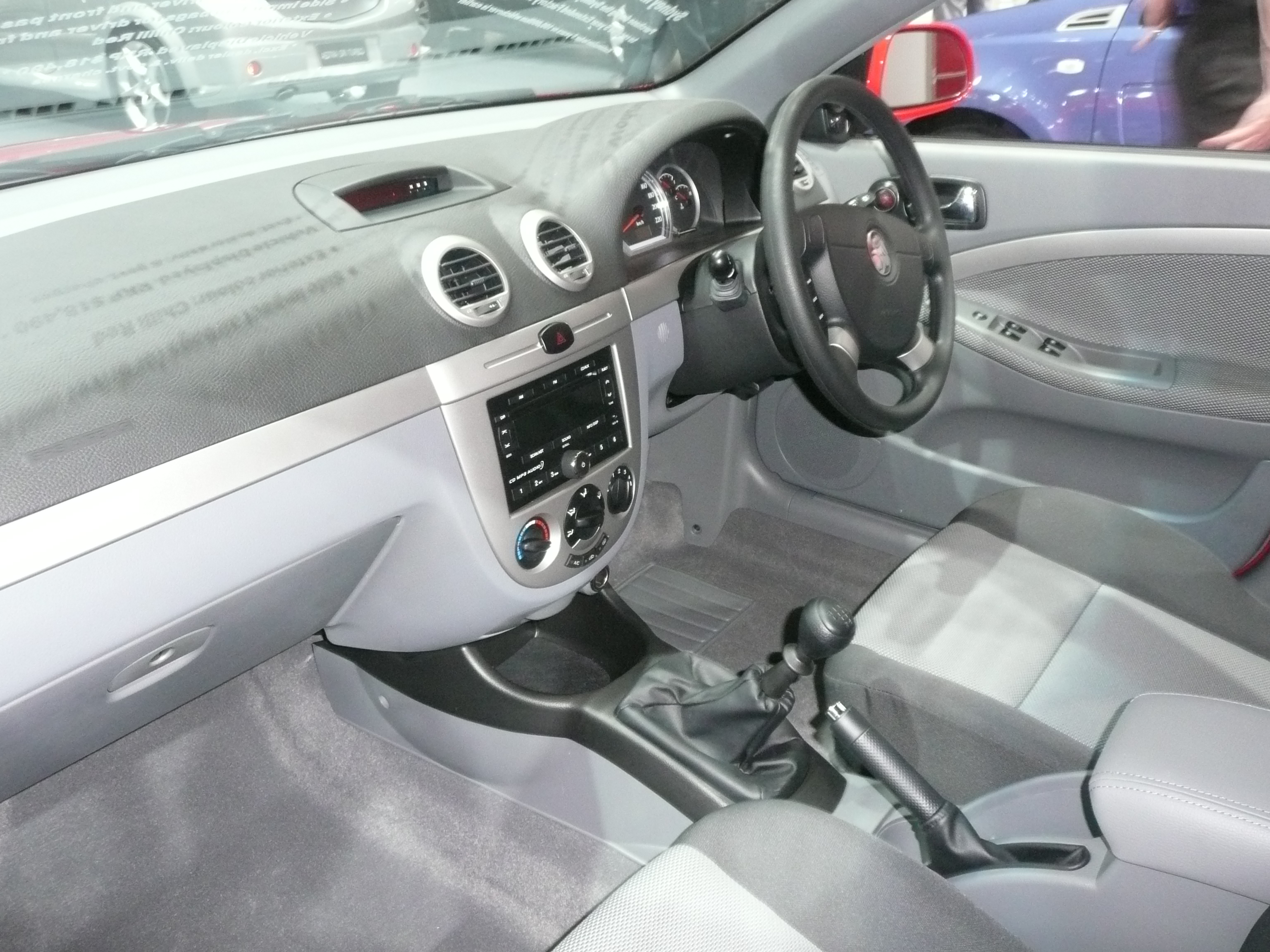 2008 Holden Viva (JF MY09) hatchback. Photographed at the 2008 Australian International Motor Show, Sydney, New South Wales, Australia.